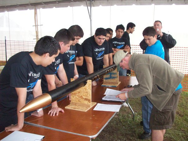 A team at IGNITE SystemsGo Rockets 2010 working on their rocket.